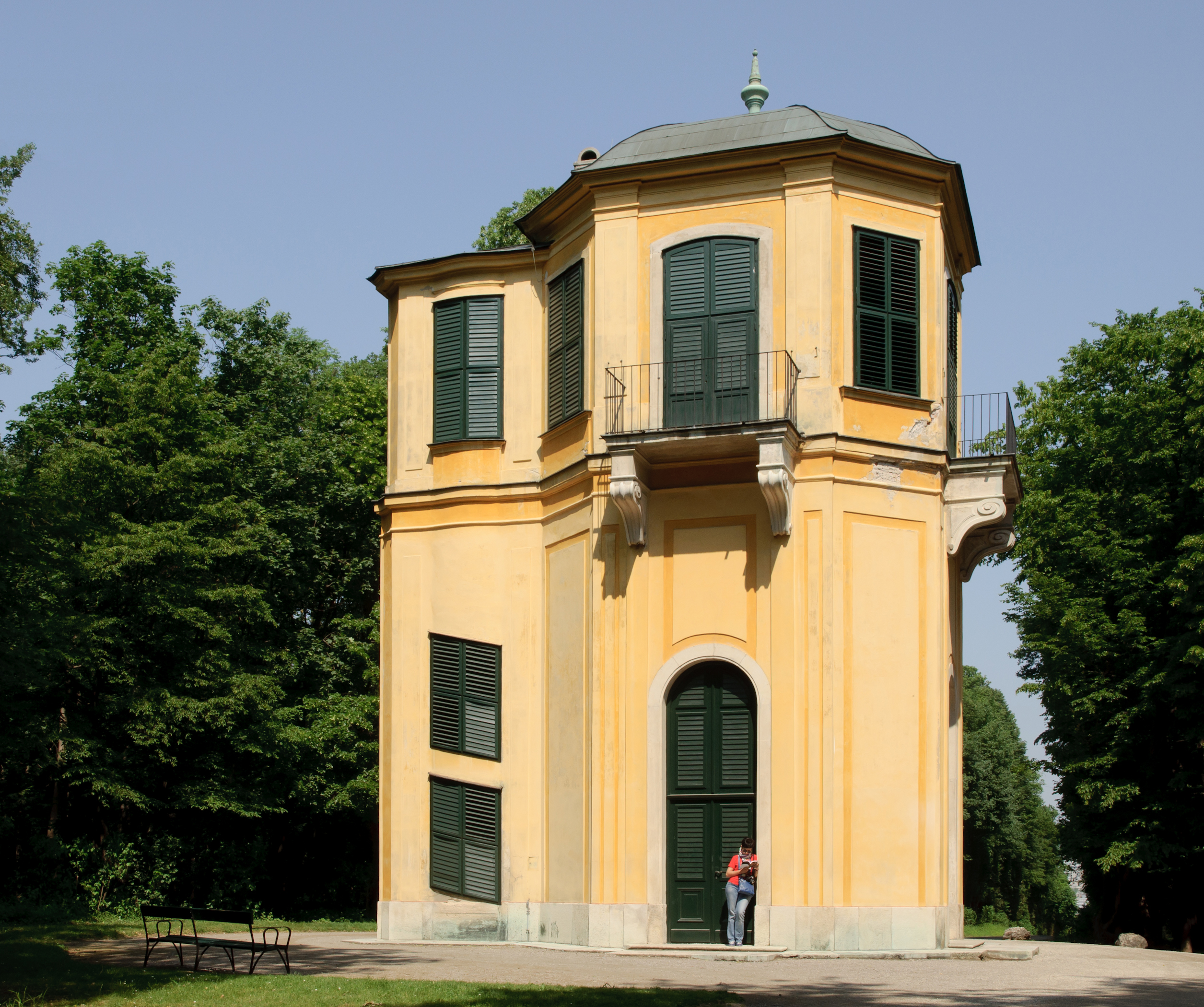 The Small Gloriette in the gardens of Schönbrunn Palace, Vienna. The two storeyed pavilion was built around 1775.